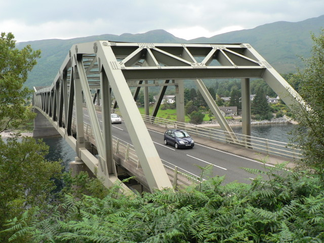 Ballachulish: above Ballachulish Bridge Looking down on the bridge from the 922001.